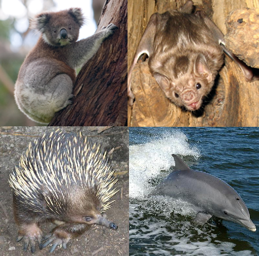 Collage of (clockwise from the top left corner) File:Koala climbing tree.jpg, File:Diaemus youngi.jpg, File:Bottlenose Dolphin KSC04pd0178.jpg, File:Echidna ST 03.jpg